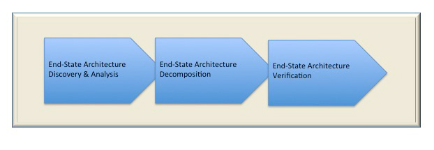 This image represents the Incremental Software Architecture process